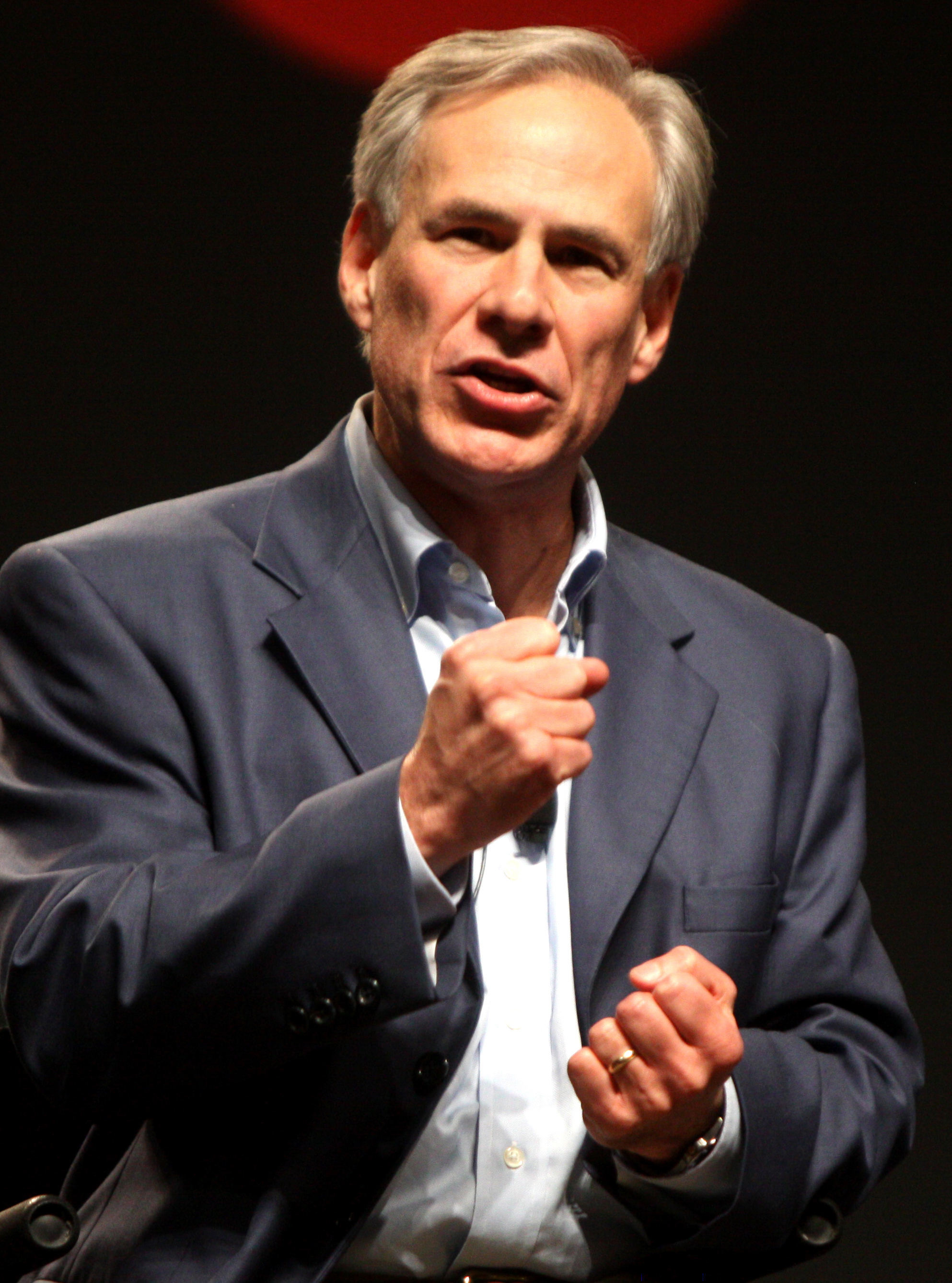 Gregory Abbott speaking at FreePac, hosted by FreedomWorks, in Phoenix, Arizona.